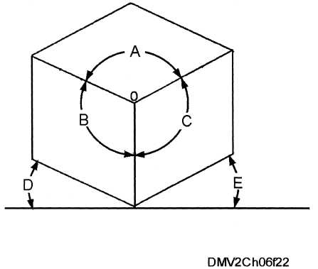 Dimetric perspective